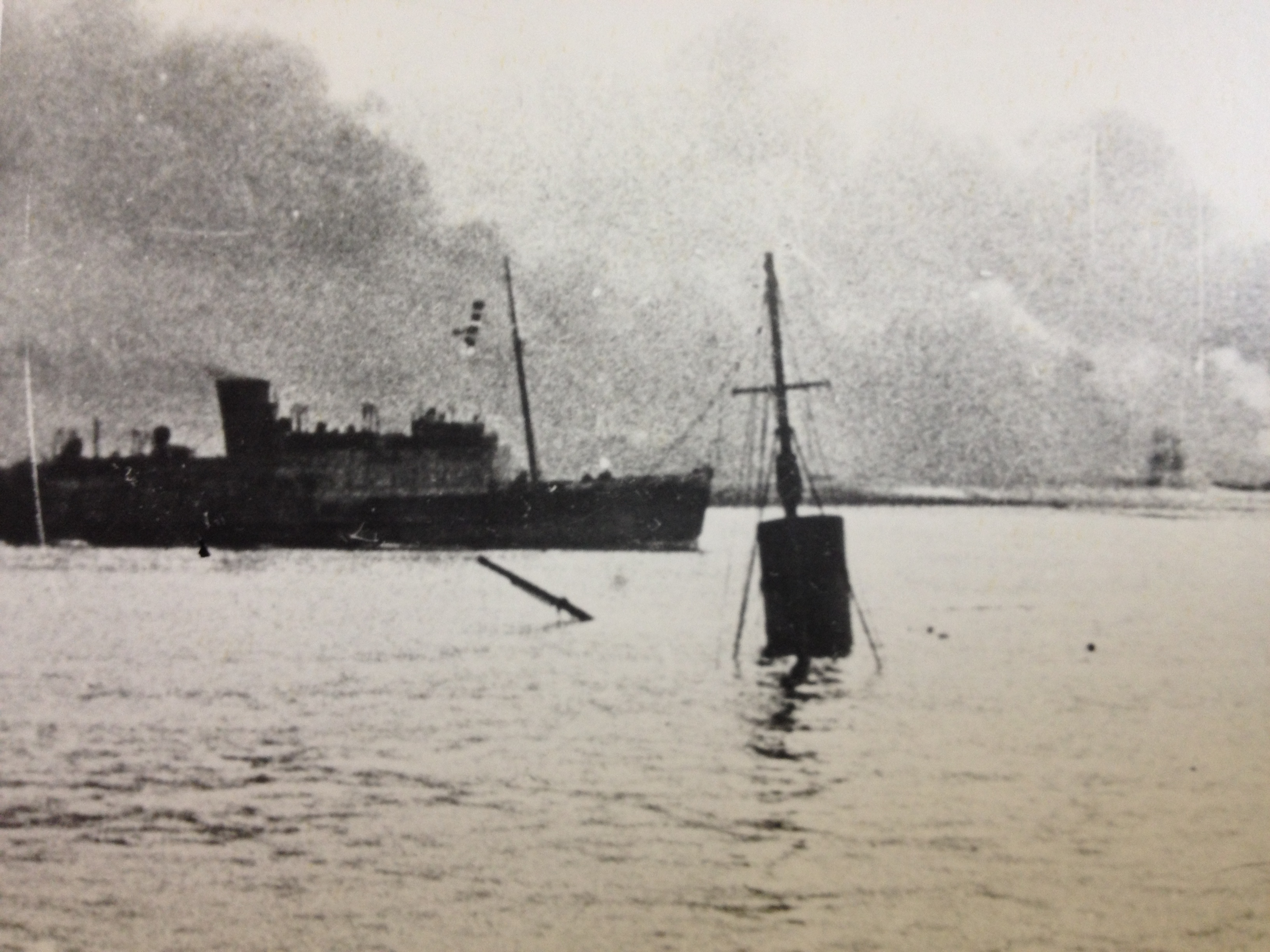 Tynwald makes her approach to Dunkirk, and passes her wrecked sister, King Orry.